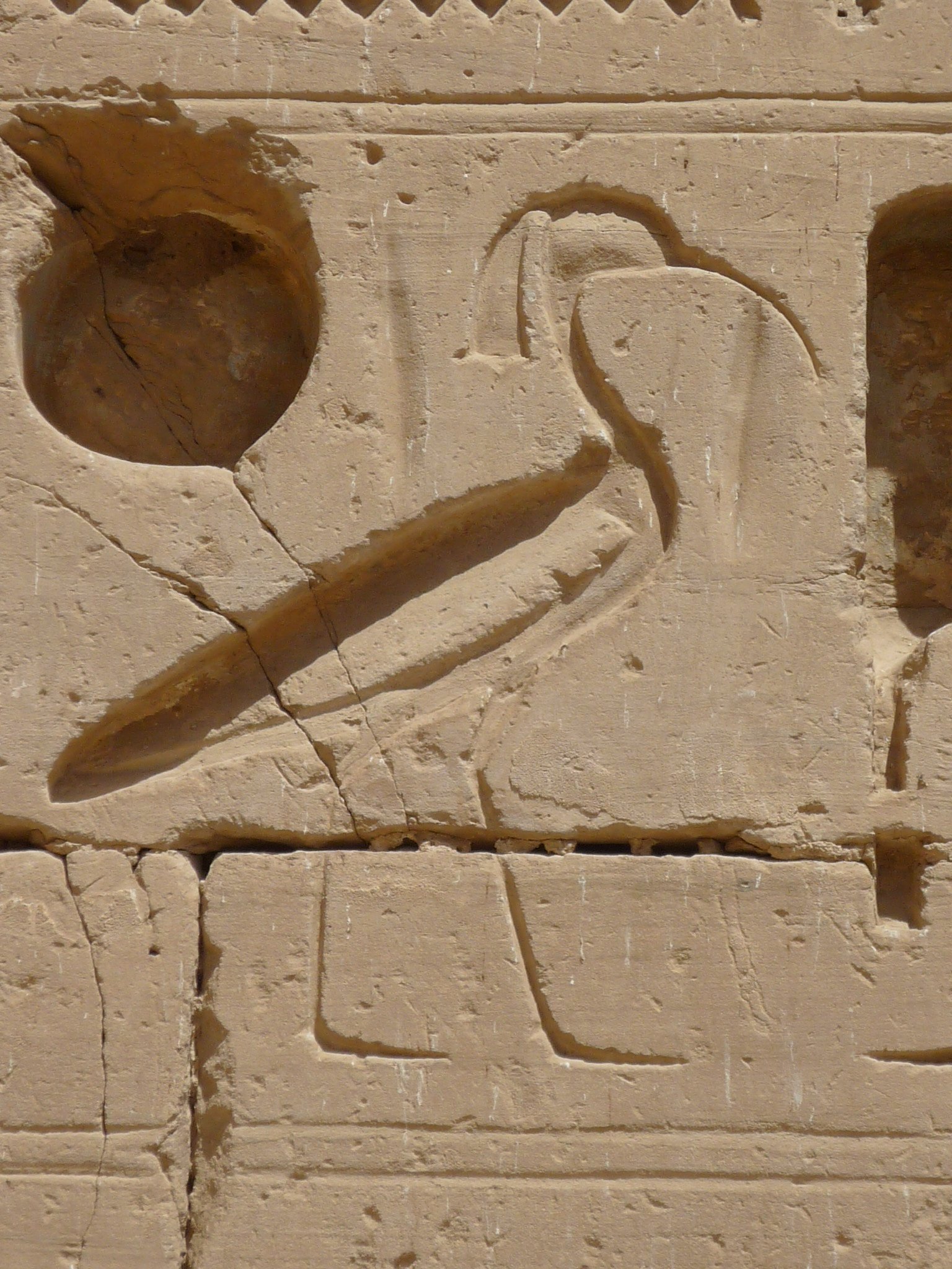 Wall relief of an ibis, mortuary temple of Ramses III, Medinet Habu, Theban Necropolis, Egypt